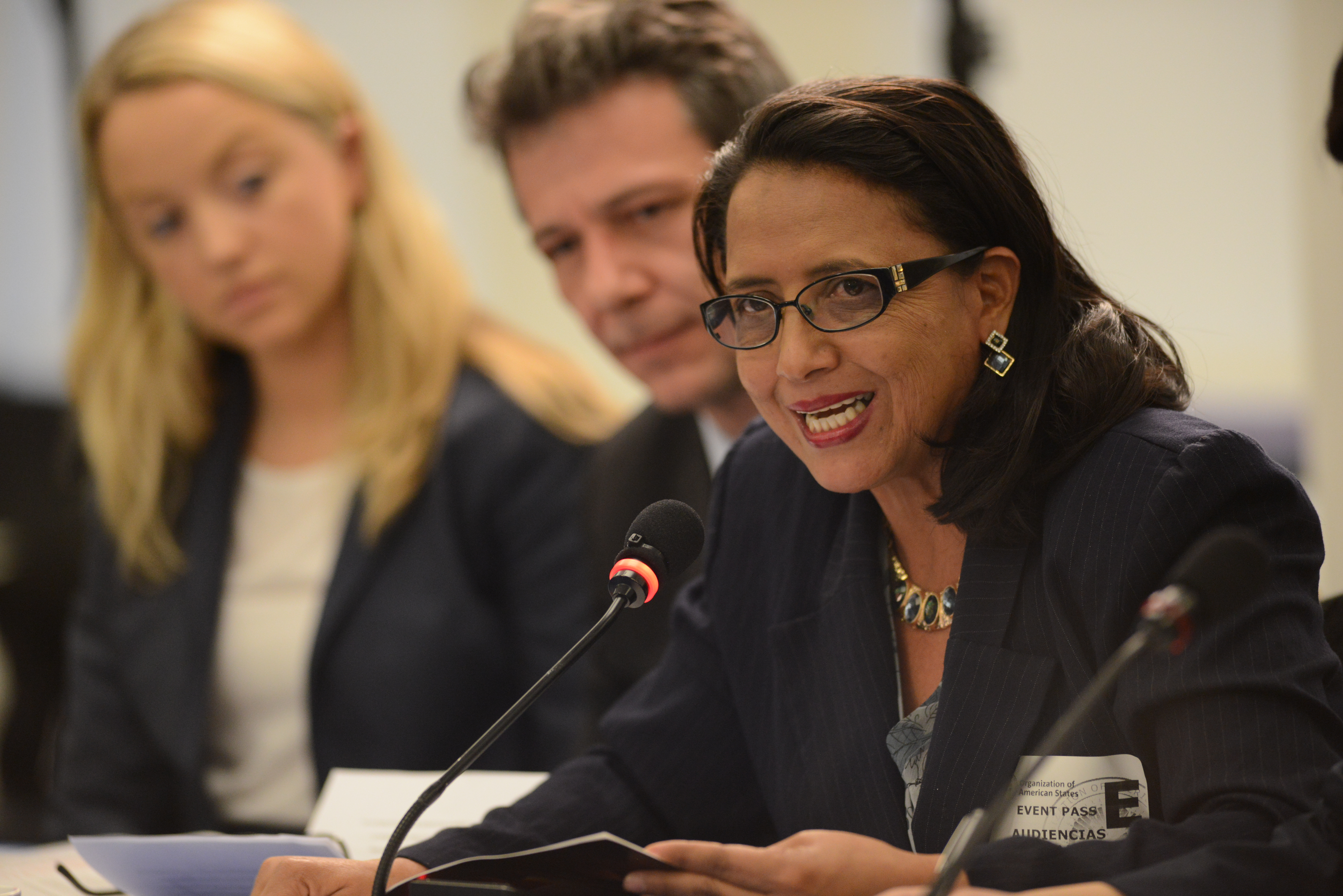 Dina Meza, journalist and human rights defender. Original pictures from Flickr